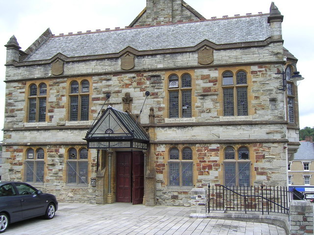 Bodmin Public Rooms Next door to the Shire Hall. Used for various public events and at one time the scene of lively Saturday night dances when Bodmin had a large military presence.